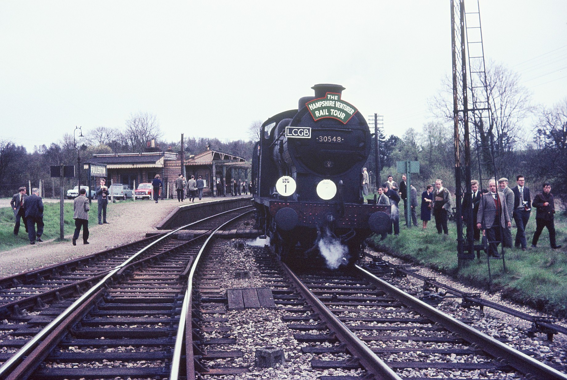 SR Q class 30548 with the LCGB's "Hampshire Venturer Railtour" at Fullerton Junction station.